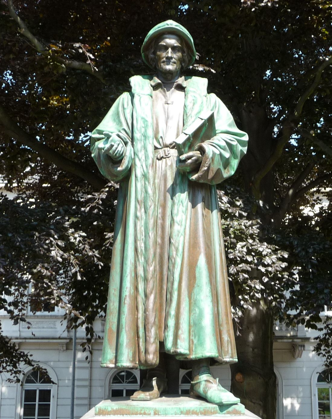 Lutherdenkmal (Worms): Philipp Melanchthon